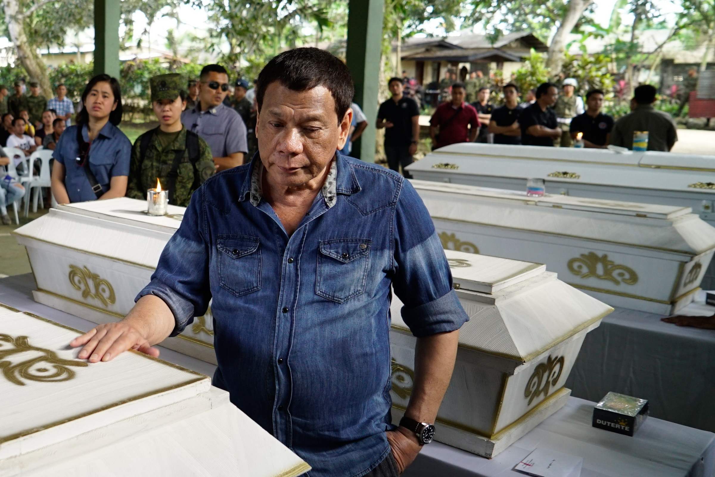 President Rodrigo Roa Duterte pays his last respects to one of the victims who died during the twin bombings at the Cathedral of Our Lady of Mount Carmel in Jolo, Sulu as he visited Camp Teodulfo Bautista in Jolo on January 28, 2019.